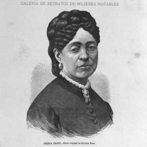 Ilustración de la Mujer Revista número 10